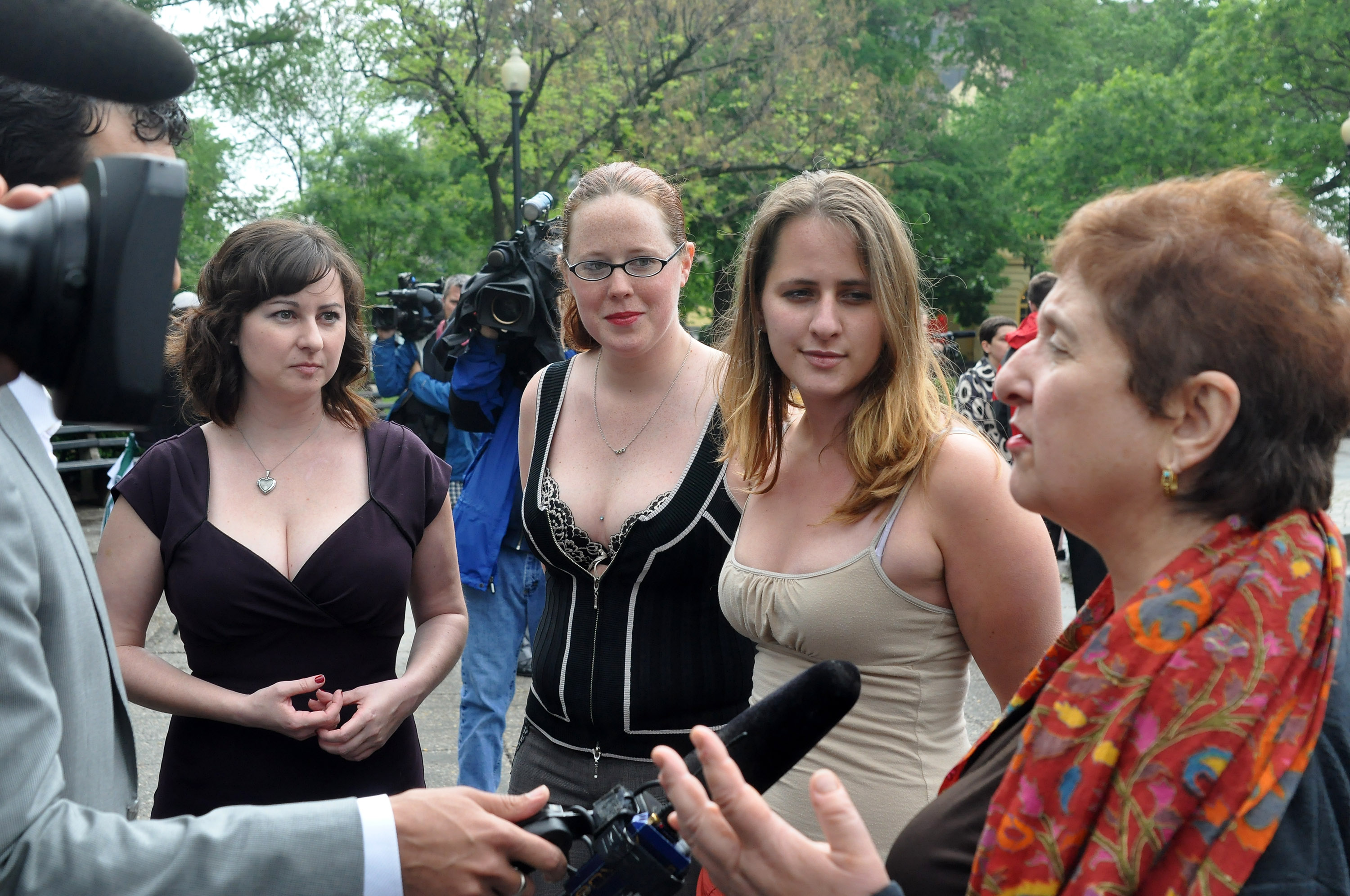 Organizers being interviewed by local media during the event.